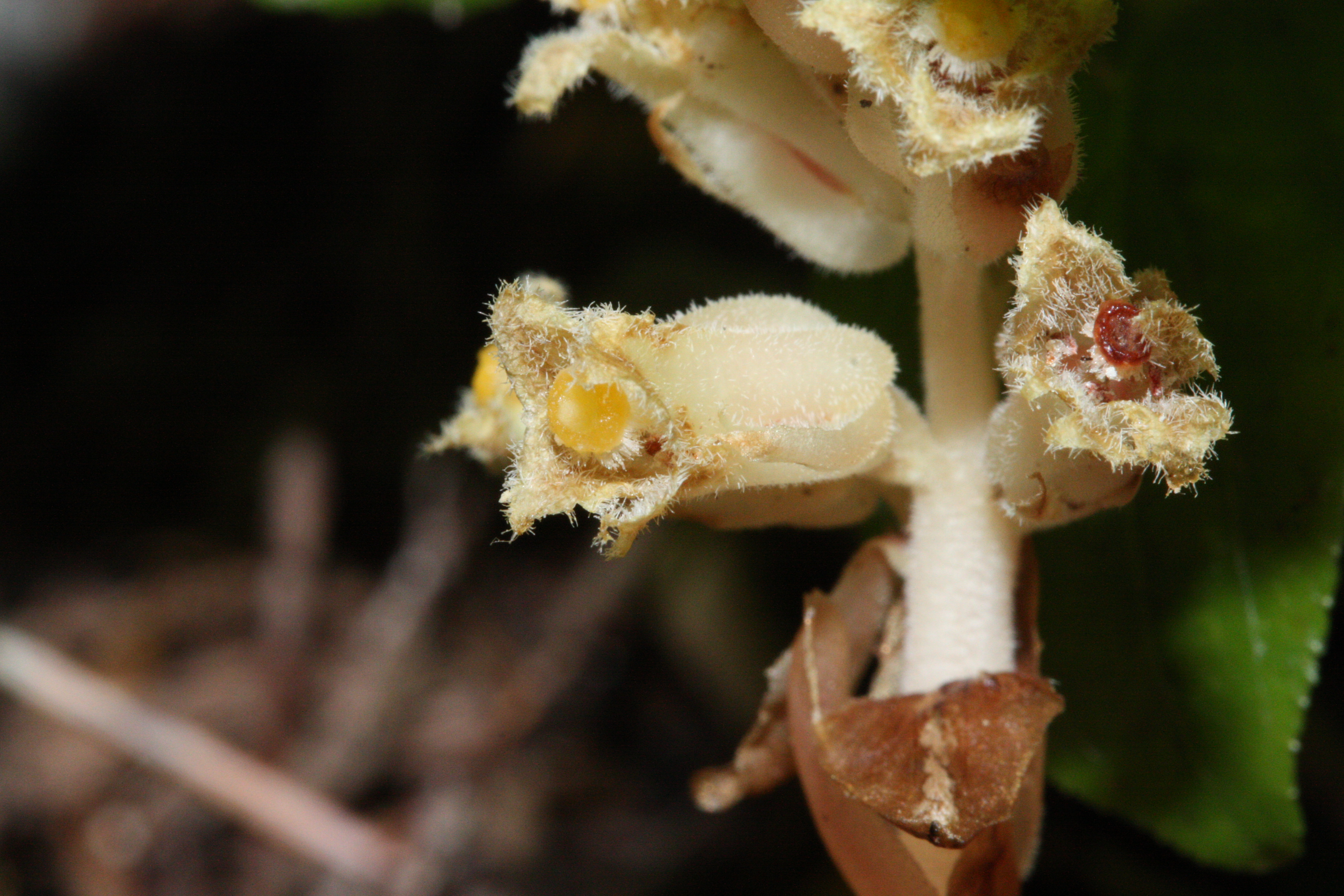 Pinesap, Many-flower Indian-pipe